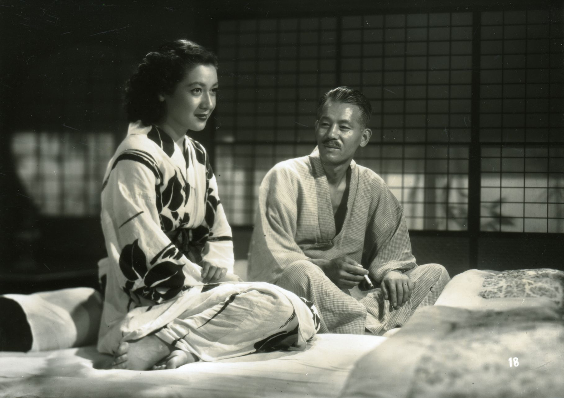 Setsuko Hara and Chishu Ryu in the Japanese motion picture Late Spring (1949).